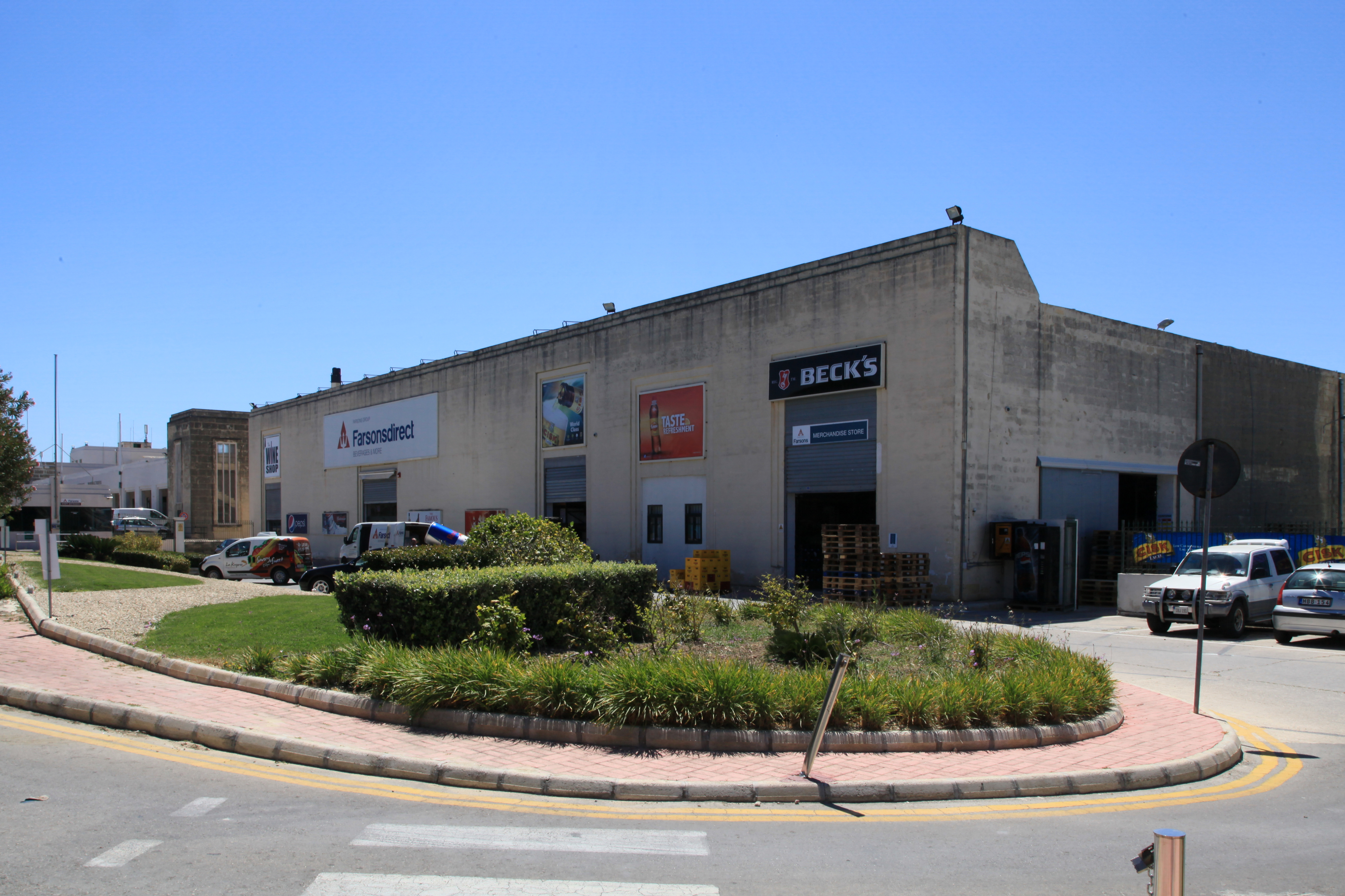 Simonds Farsons Cisk at Triq l-Imdina in Birkirkara, Malta